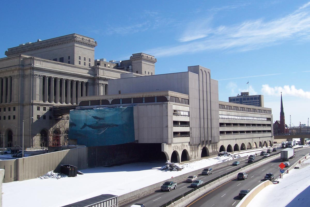 Copyright © 2006 Sulfur Milwaukee County Courthouse Annex with its Whaling Wall mural, located in downtown Milwaukee, Wisconsin. The annex is scheduled to be demolished as part of the Marquette Interchange reconstruction.